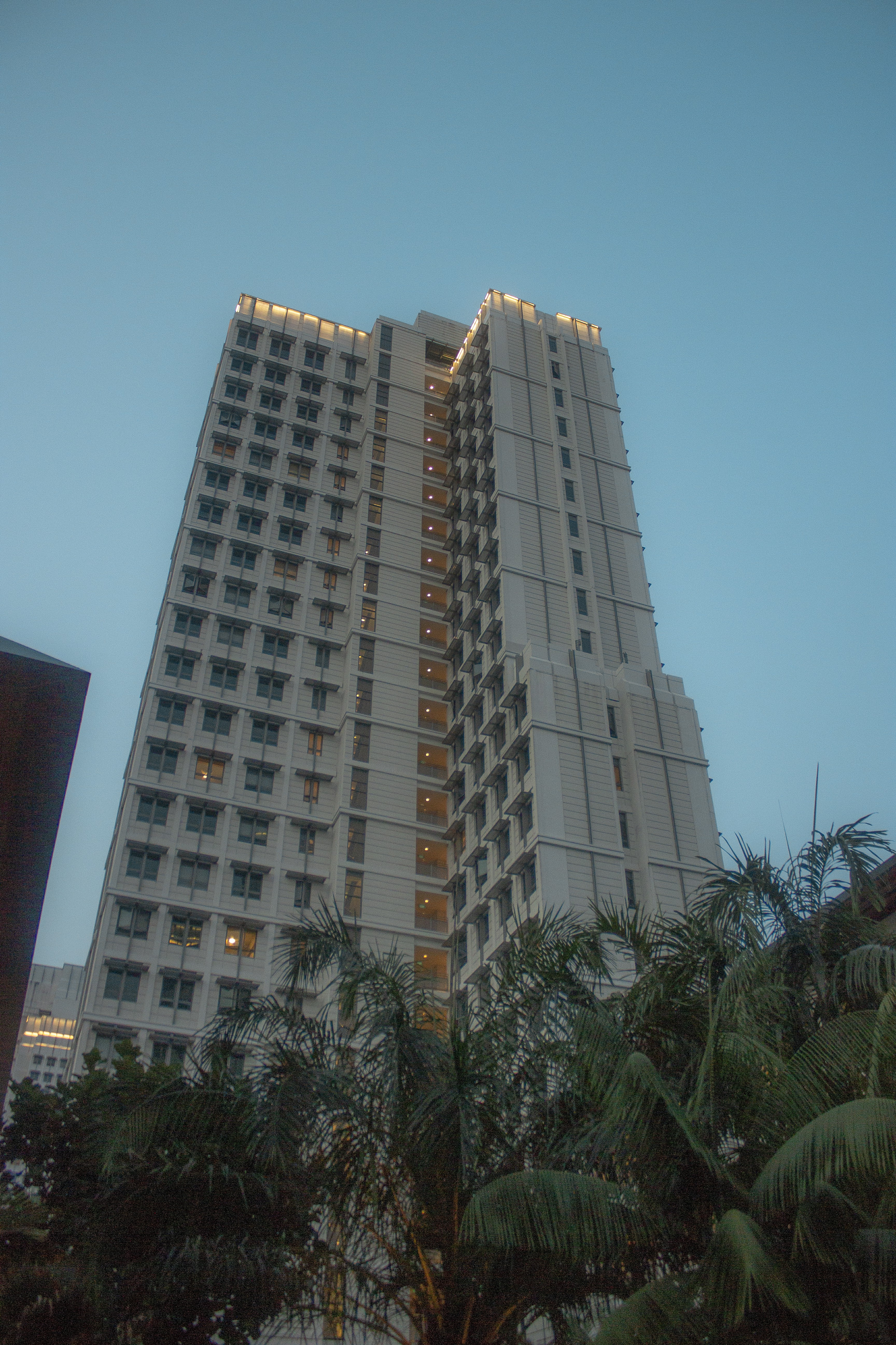 A view of the south facade of Elm College, one of three residential colleges at Yale-NUS College. Yale-NUS is a liberal arts college founded by the Yale University and the National University of Singapore.